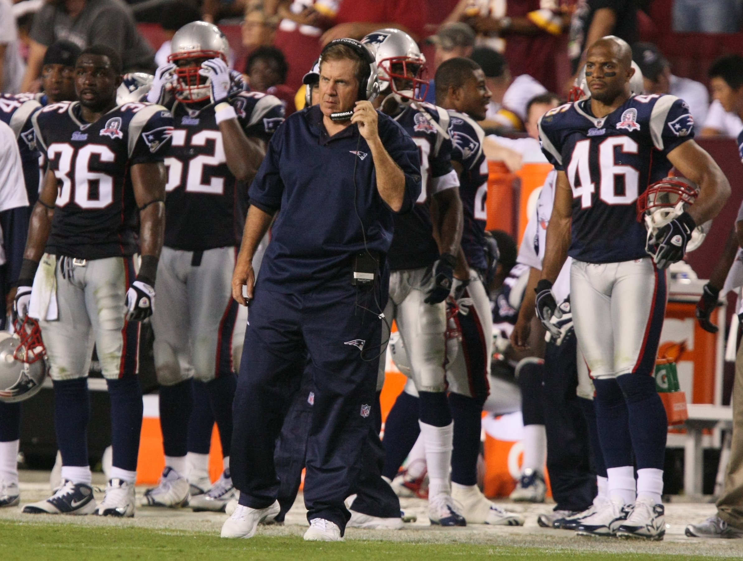 Head coach Bill Belichick of the New England Patriots watches the preseason game against the Washington Redskins at FedExField on August 28, 2009 in Landover, Maryland.